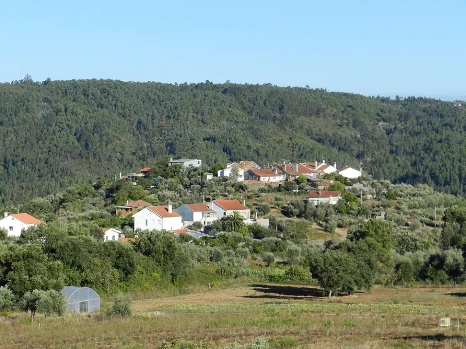 Cabeça da Moura, Montes - Portugal.